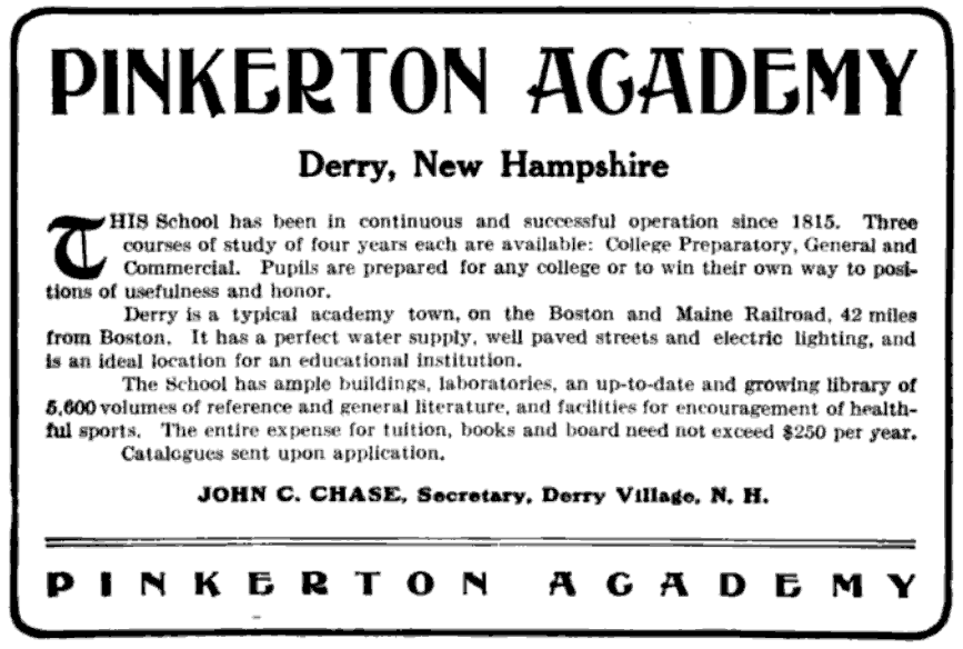 Advertisement for Pinkerton Academy, a boarding school in Derry, New Hampshire